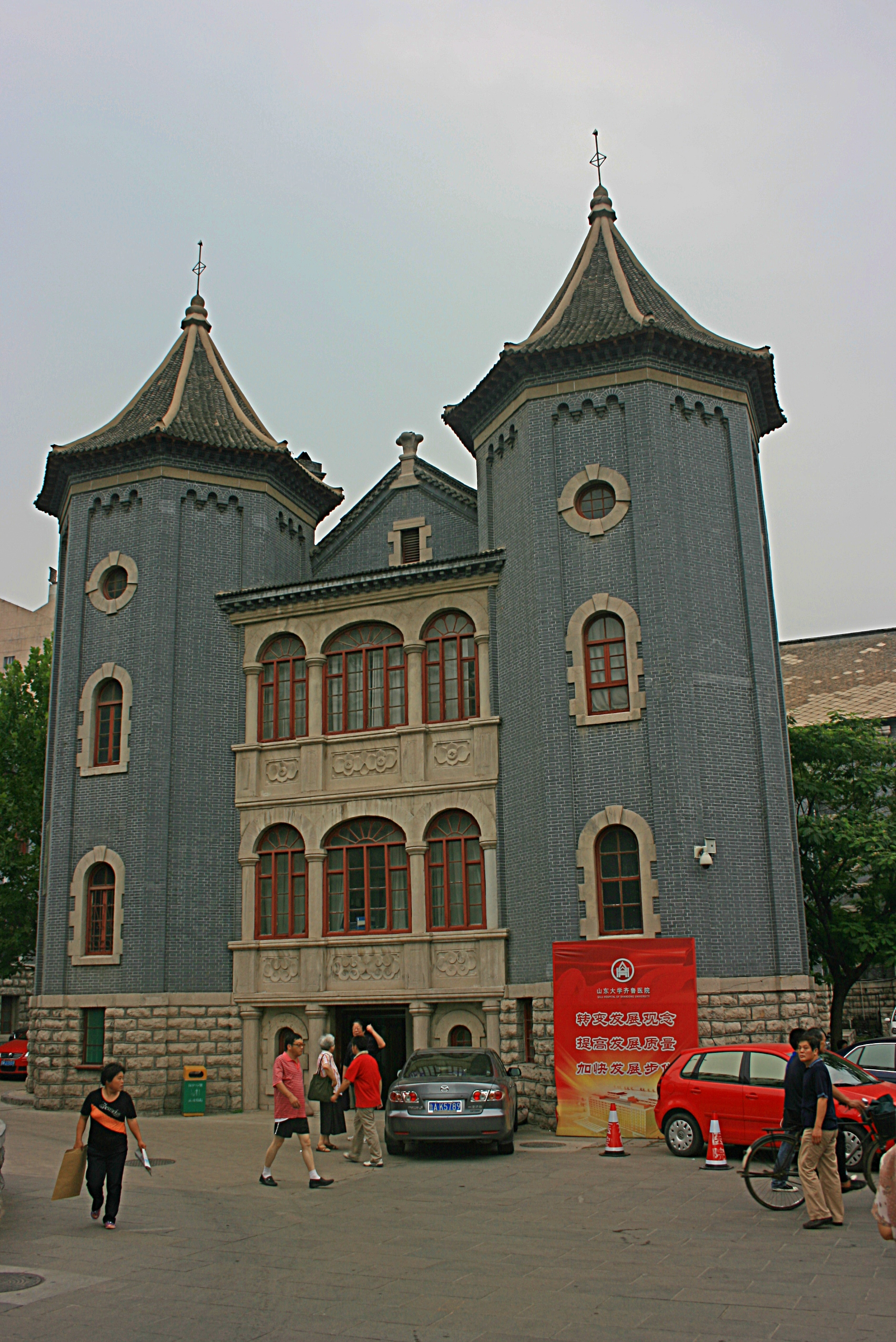 Photograph of the Republican Building at the campus of the Shangdong University in the city of Jinan, Shandong Province, China.